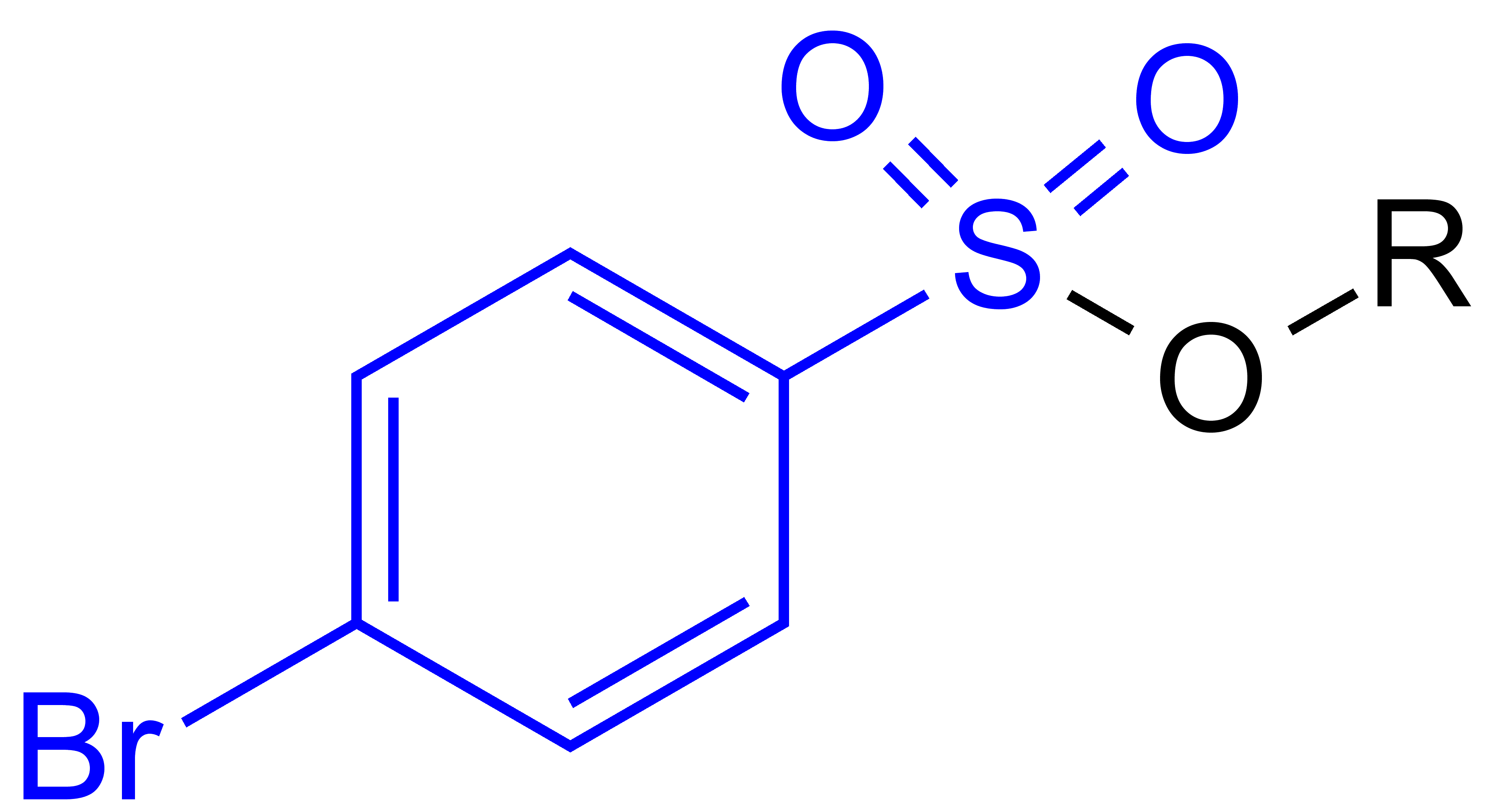 Brosyl_Group_General_Formulae